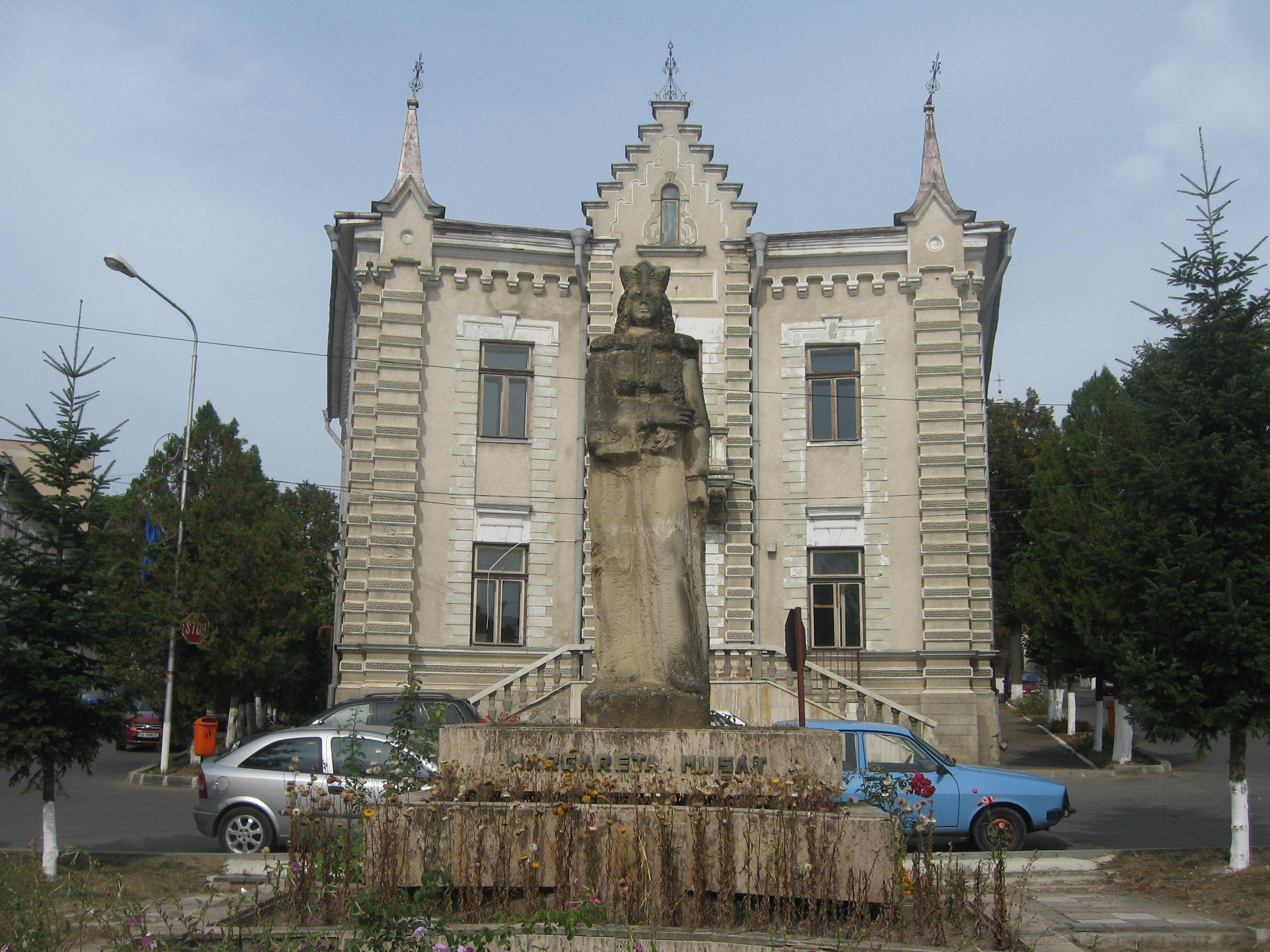 Statuia Margaretei Muşat